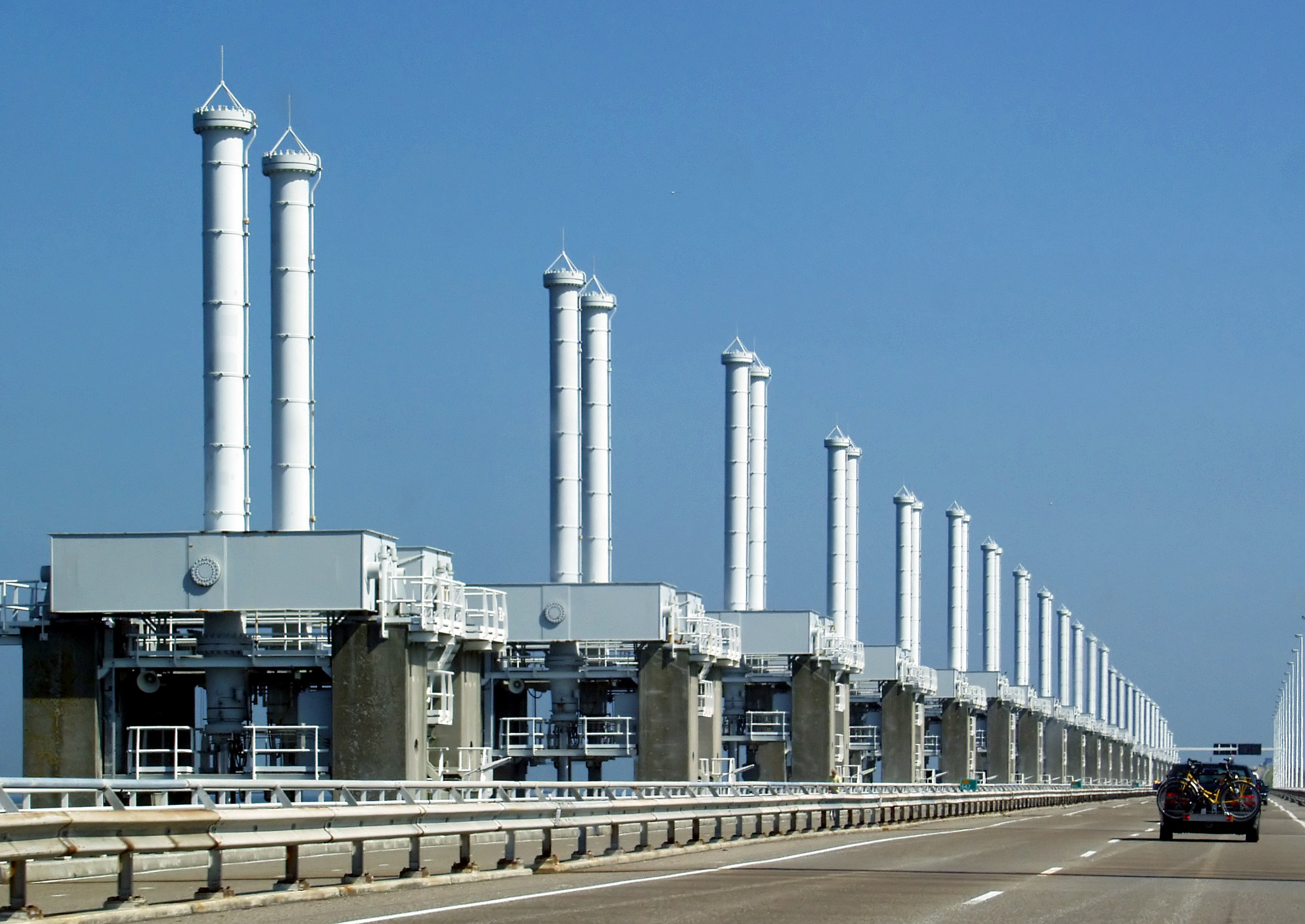 Delta Works – Oosterschelde - Netherlands